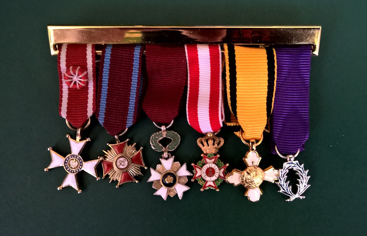 Set of six miniatures of decorations: Order Polonia Restituta (Poland), Gold Cross of Merit (Poland), Order of the Crown (Belgium), Order of Saint-Charles (Monaco), Order of the Phoenix (Greece), Order of Academic Palms (France).